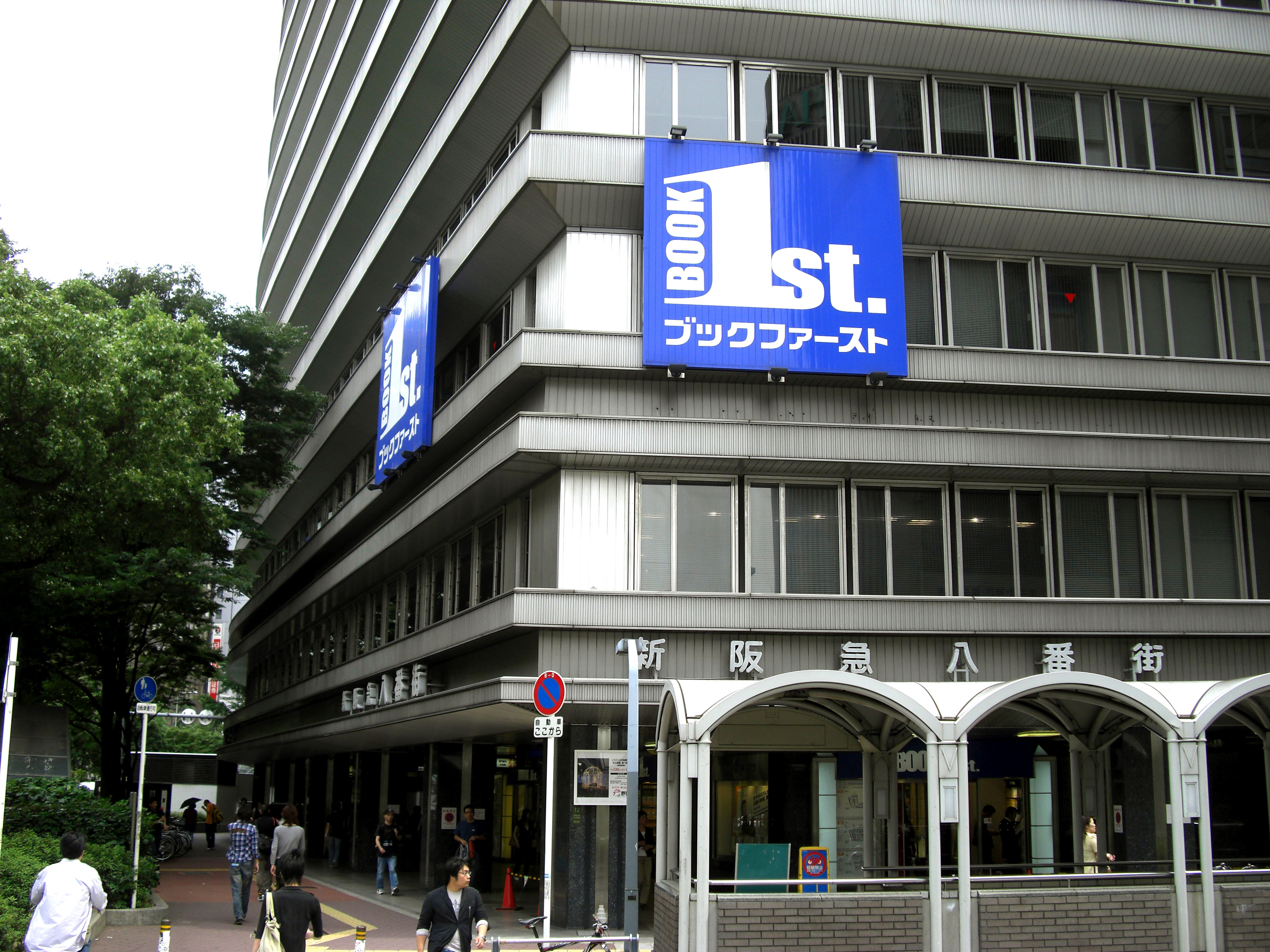 Book1st_Umeda,Umeda Kita-Ku Osaka-City Osaka Japan.